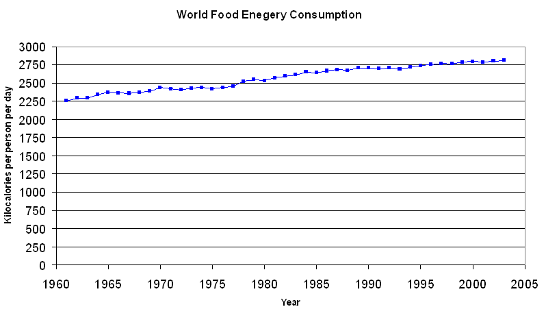 Daily energy consumption per person by year.